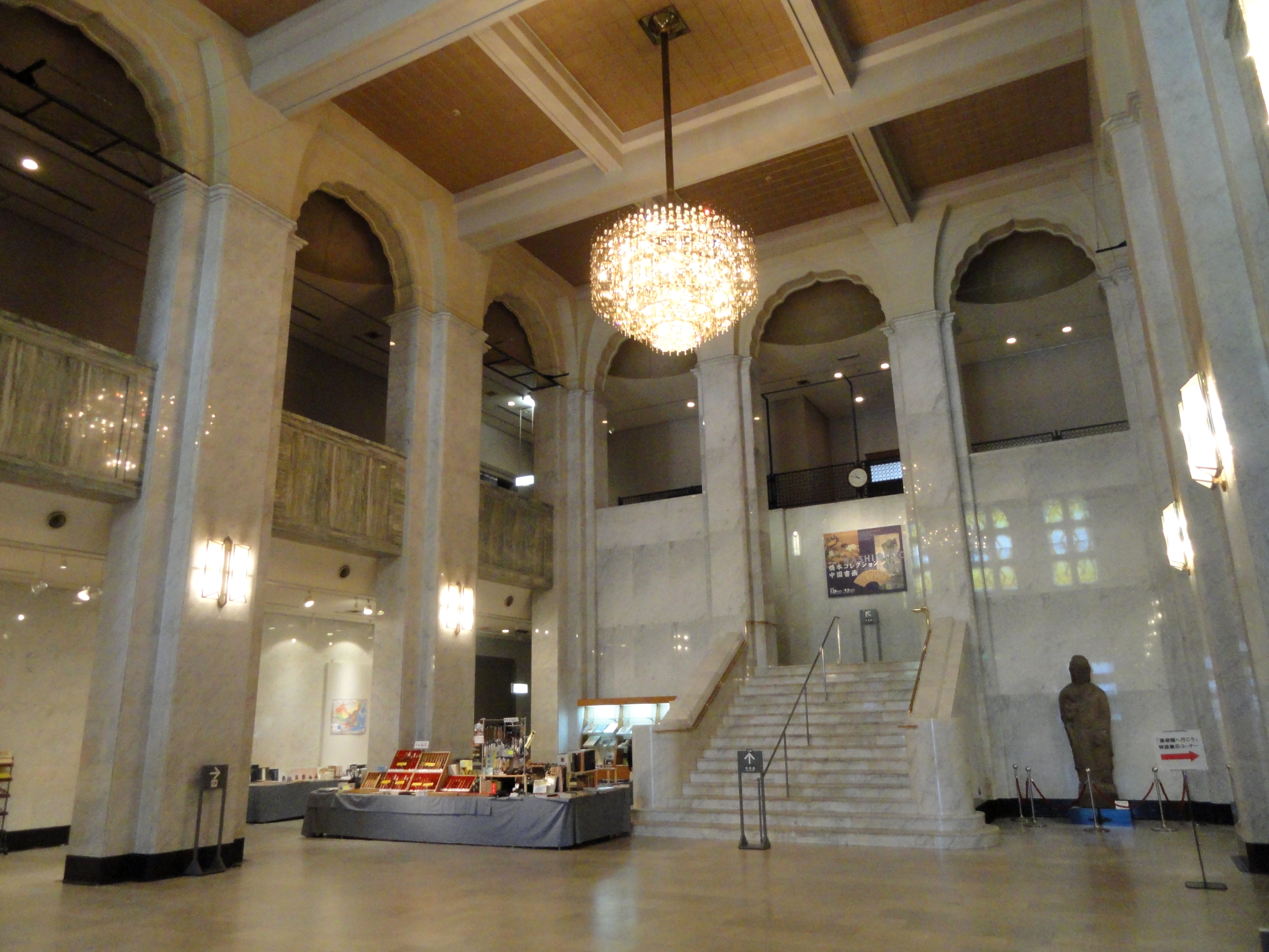 Osaka Municipal Museum of Art, Osaka, Japan. Photography was permitted in this part of the museum (but not elsewhere).